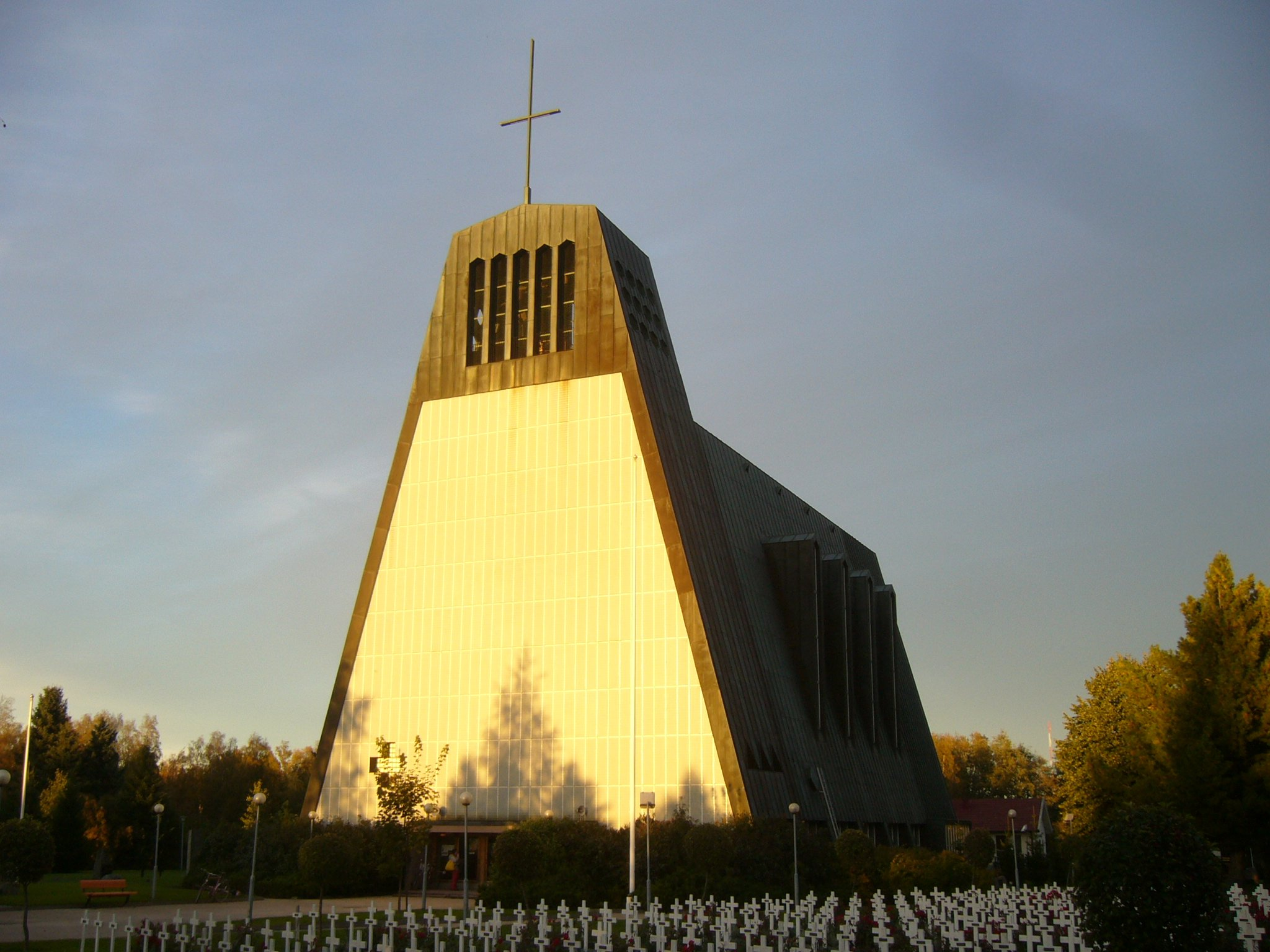 The church of Kauhajoki parish, Finland.